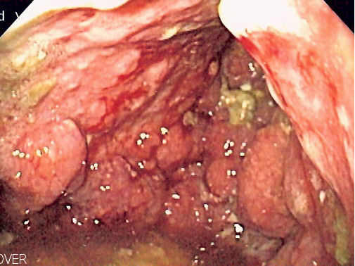 Endoscopic image of linitis plastica, where the entire stomach is invaded with gastric cancer, leading to a leather bottle like appearance. Released into public domain on permission of patient.